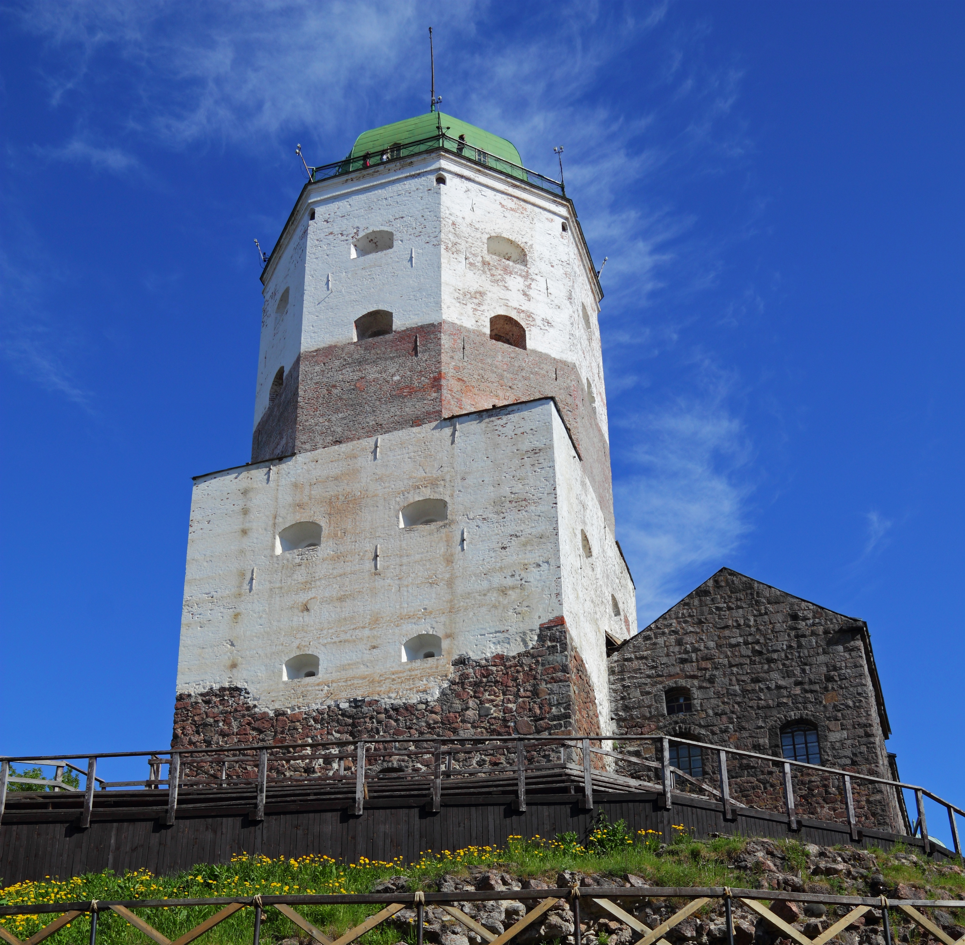 Vyborg (Viipuri), Leningrad Oblast, Russia. Views of the Vyborg Castle.